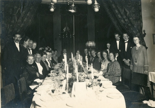 Dutch PhD-dinner party, with prof. Johanna Westerdijk, prof. F. A. F. C. Went and Marcel Minnaert